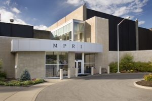 Exterior of MPRI